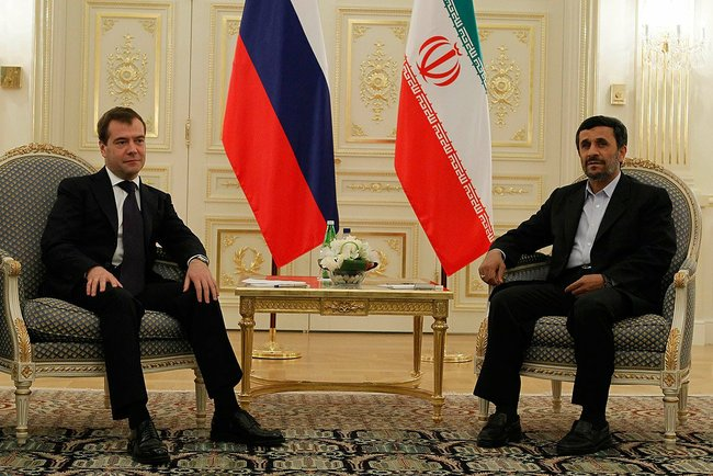 With President of Iran Mahmoud Ahmadinejad.